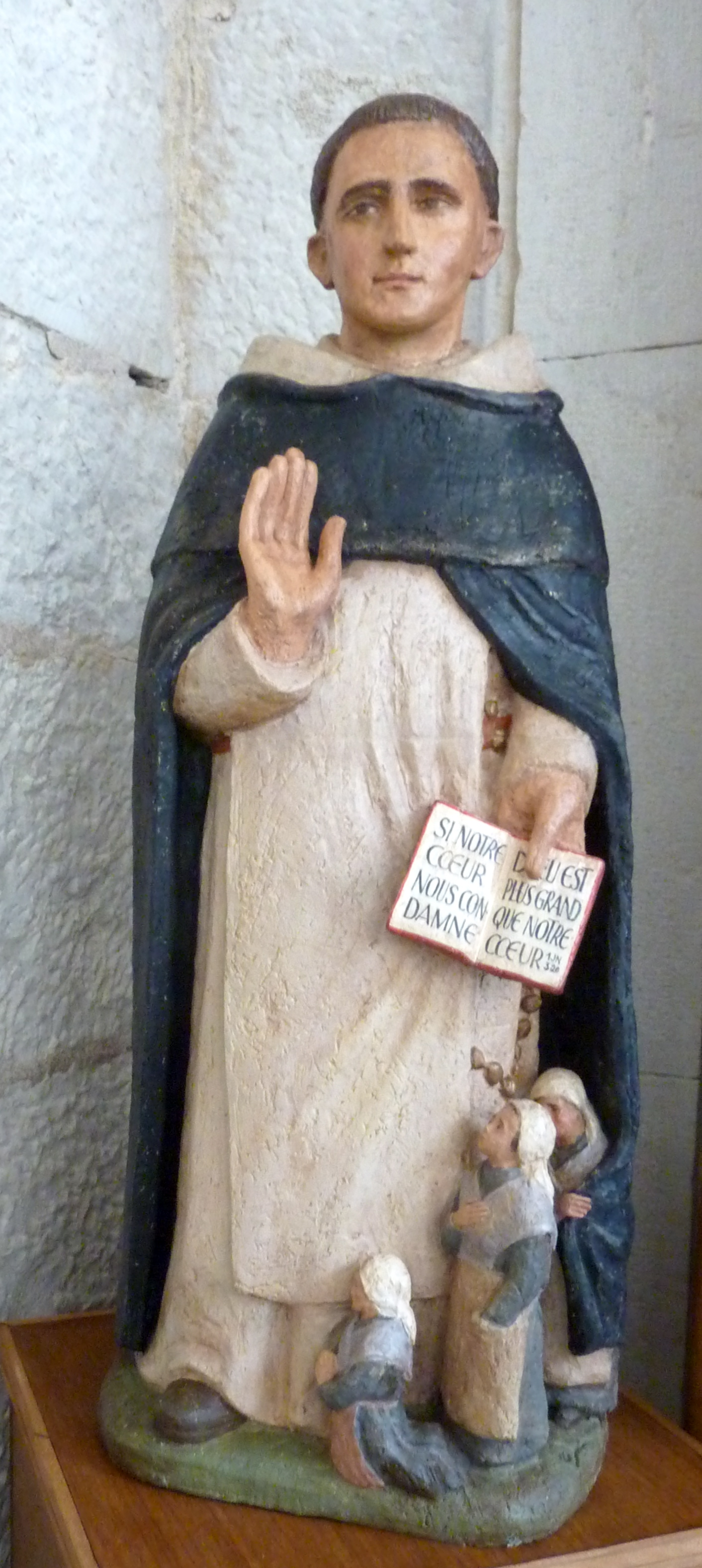 Statue of bl. Jean-Joseph Lataste outside the new chapel at Montferrand